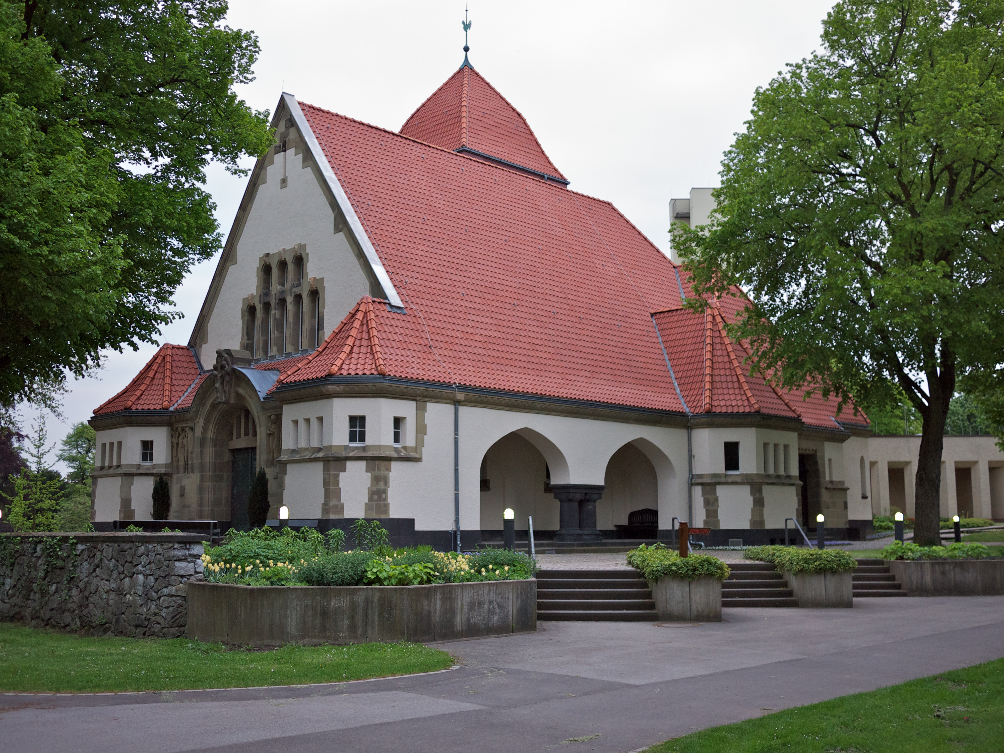 Chapel on the Stoffeln Cemetery in Duesseldorf-Oberbilk, Germany (Front)